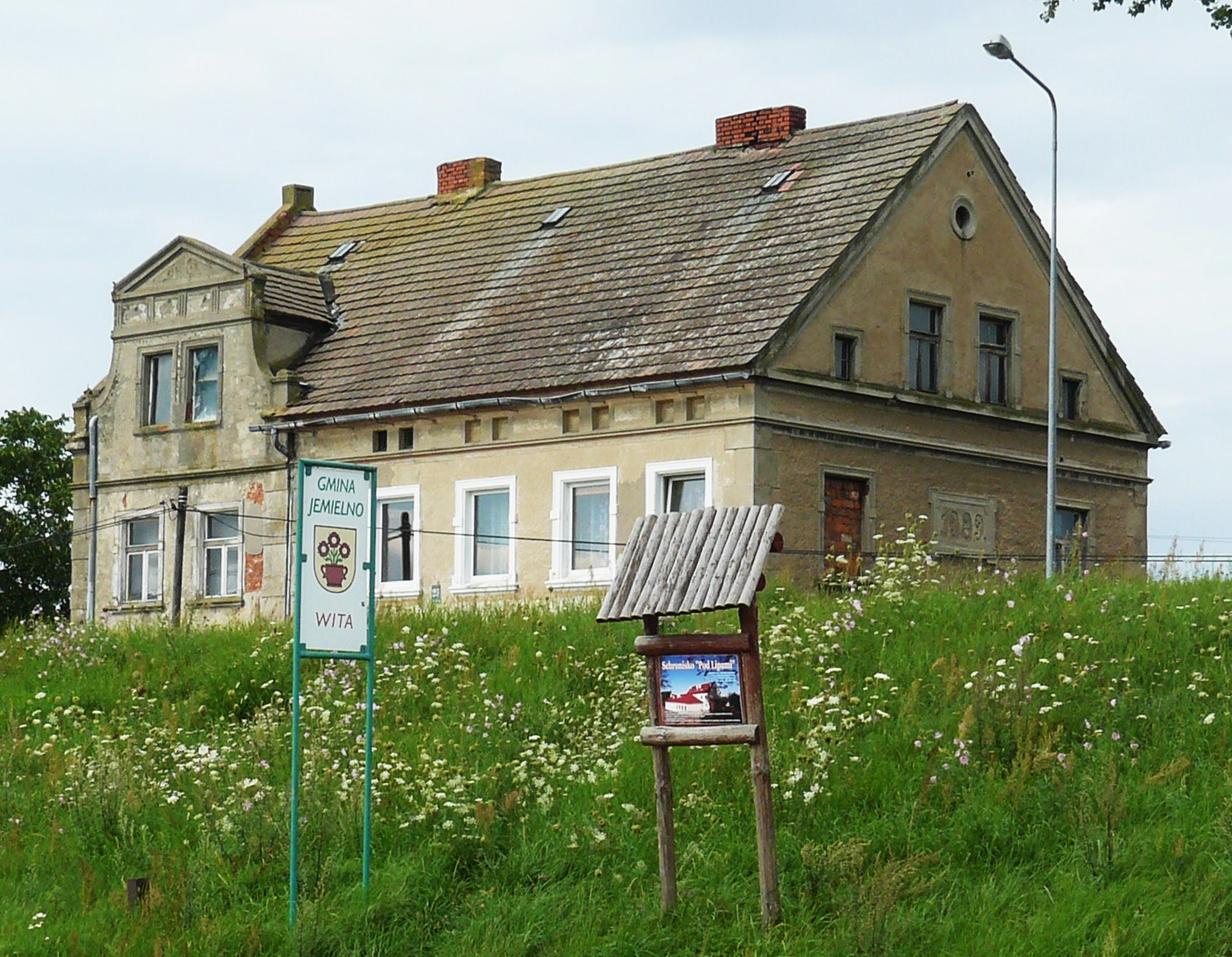 Ciechanow, PL, gm. Jemielno